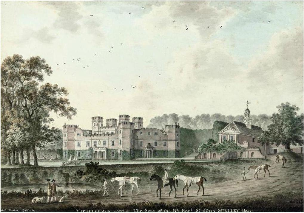 Michelgrove House, Sussex by James Lambert of Lewes, 1782 Home of the Shelley family. Now a grade II listed ruin.